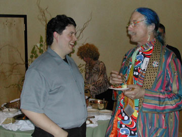 Ethan Hurd & Patch Adams at the 2002 Conference on World Affairs. Boulder, Colorado